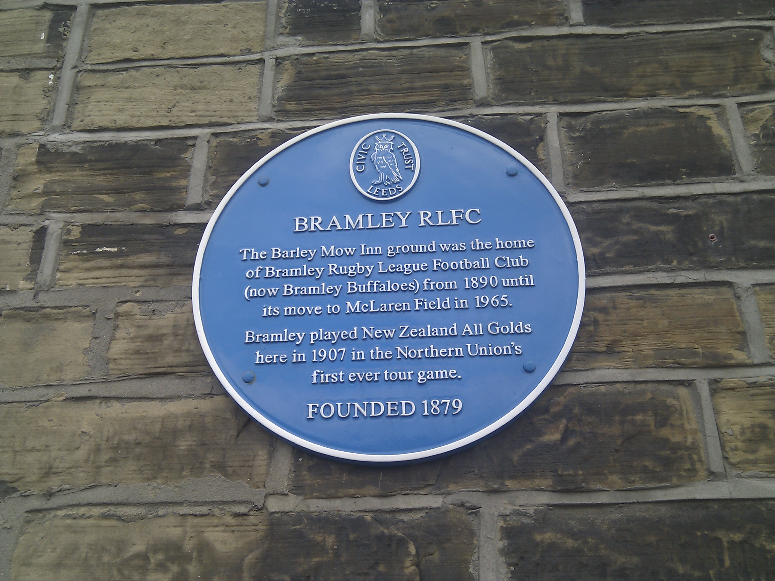 Bramley RLFC The Barley Mow Inn ground was the home of Bramley Rugby League Football Club (now Bramley Buffaloes) from 1890 until its move to McLaren Field in 1965. Bramley played New Zealand All Golds here in 1907 in the Northern Union's first ever tour game. Founded 1879